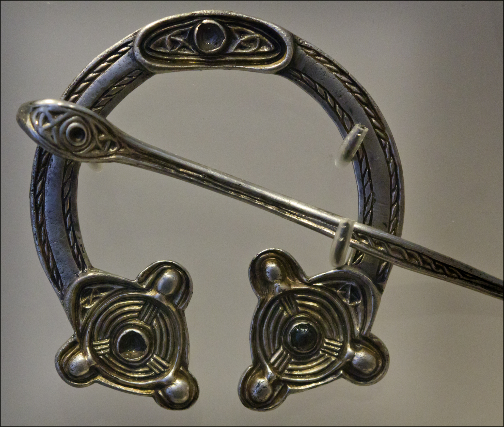 This is a pennannular brooch (meaning formed into an incomplete ring - a completed ring would be annular), of Pictish design. A part of the St Ninian's Isle Treasure, discovered in the late 1950s on an island in the Shetlands. From the latter part of the 8th century.